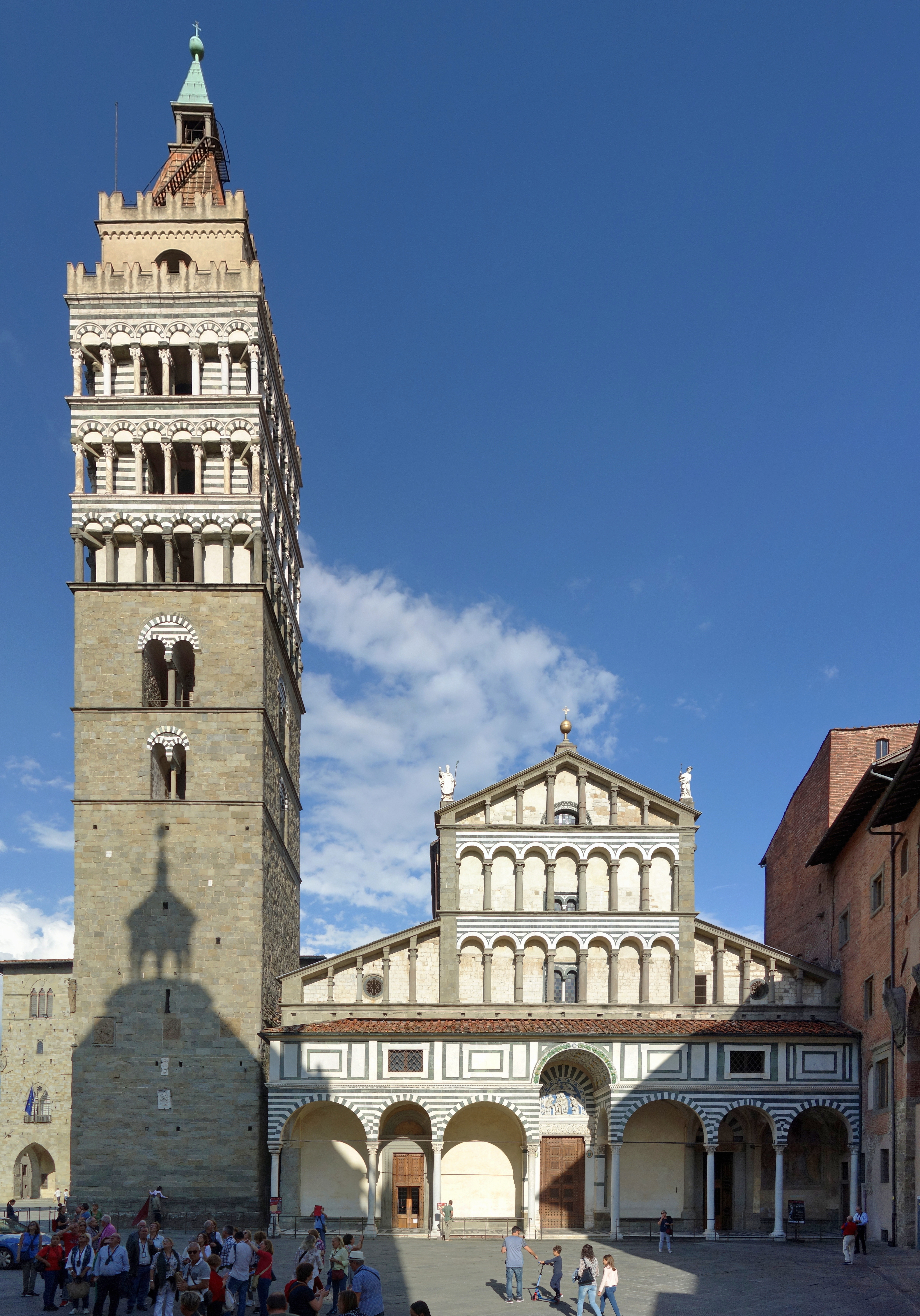 The facade and bell tower of the Cathedral of Pistoia, Tuscany, Italy.